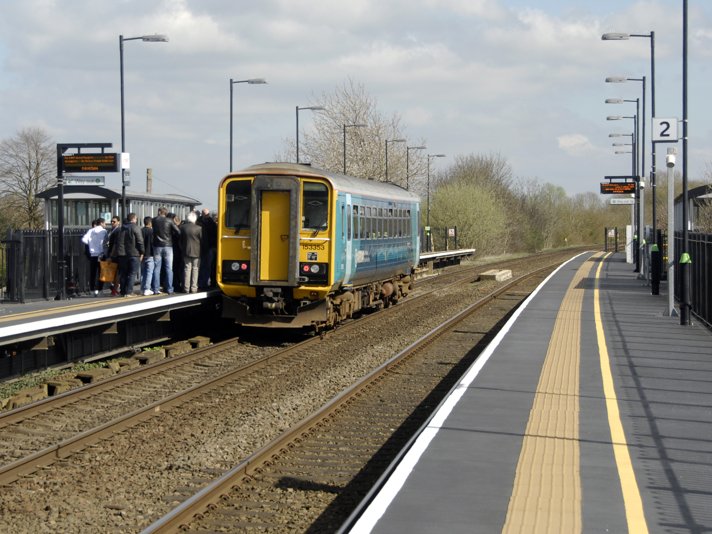 Class 153353 pauses to collect passengers on a Sunday service at Cosford railway station. There had been a food festival on at the RAF Museum and many of these people would have to stand as the train was overcrowded